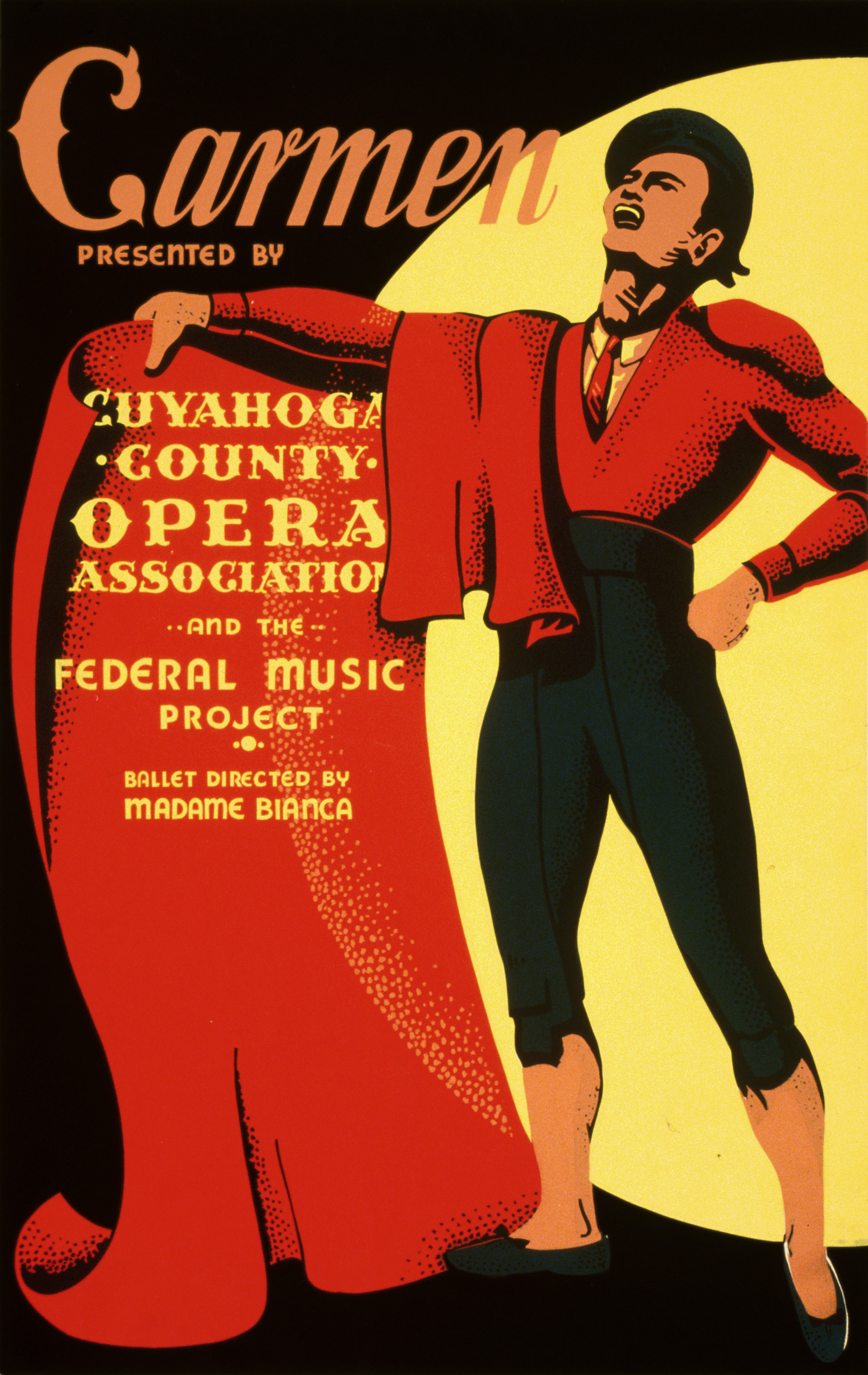 Poster for the opera "Carmen", showing a matador. Presented by Cuyahoga County Opera Association and the Federal Music Project : Ballet directed by Madame Bianca.